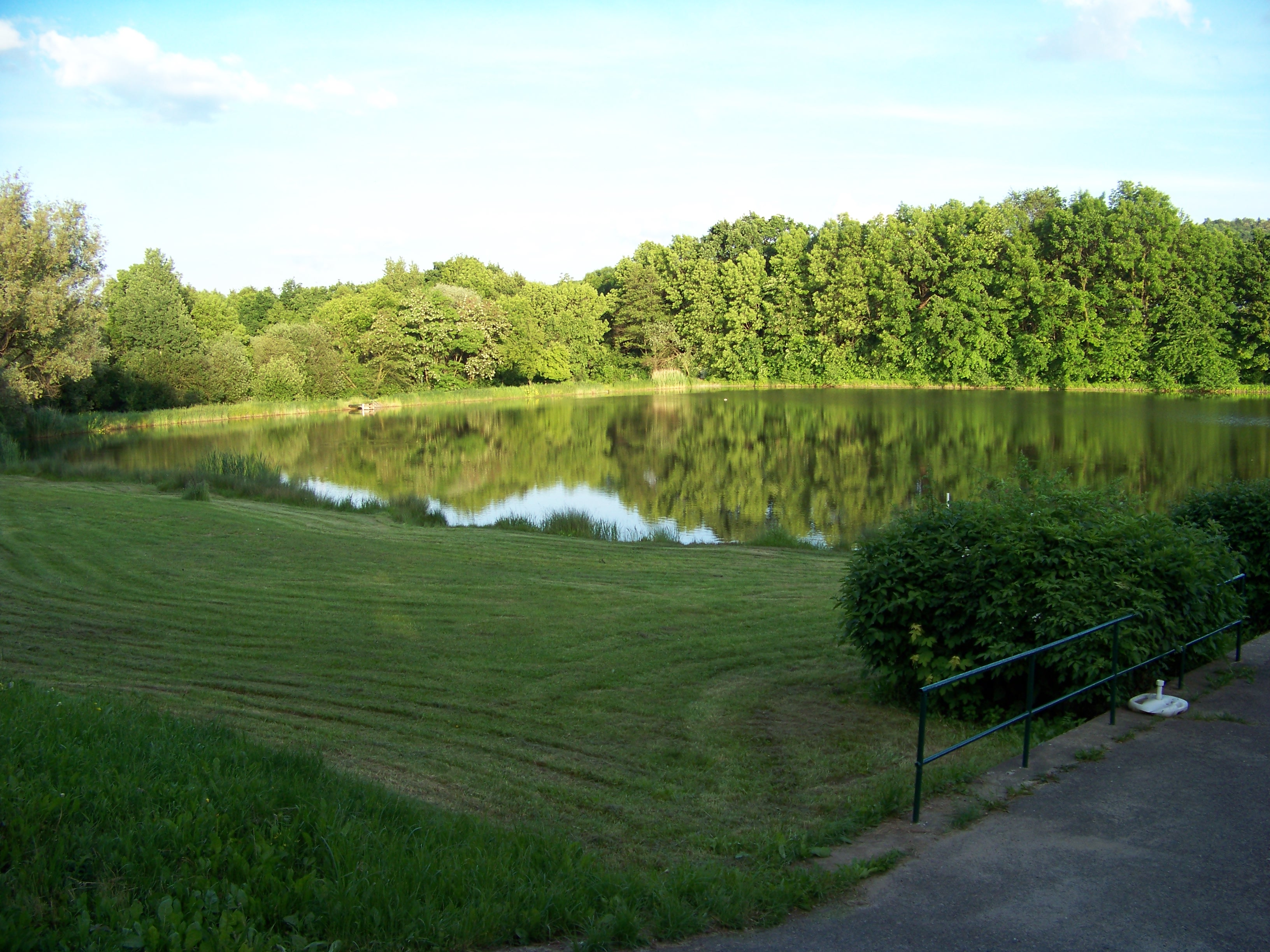 Motol, Prague, the Czech Republic. Motol Pond.